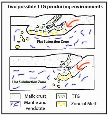 wefalsdjfkjaelfjasdf